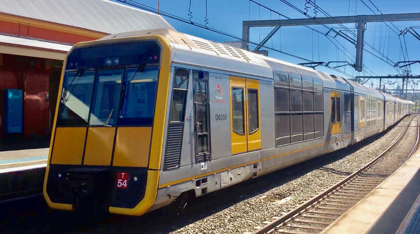 T54 departs Sydenham on an up service. Tangaras are a common sight on the Eastern Suburbs & Illawarra Line